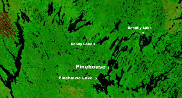 Portion of Nasa satellite image showing Pinehouse Lake in Saskatchewan Canada (Captions have been added by Kayoty)